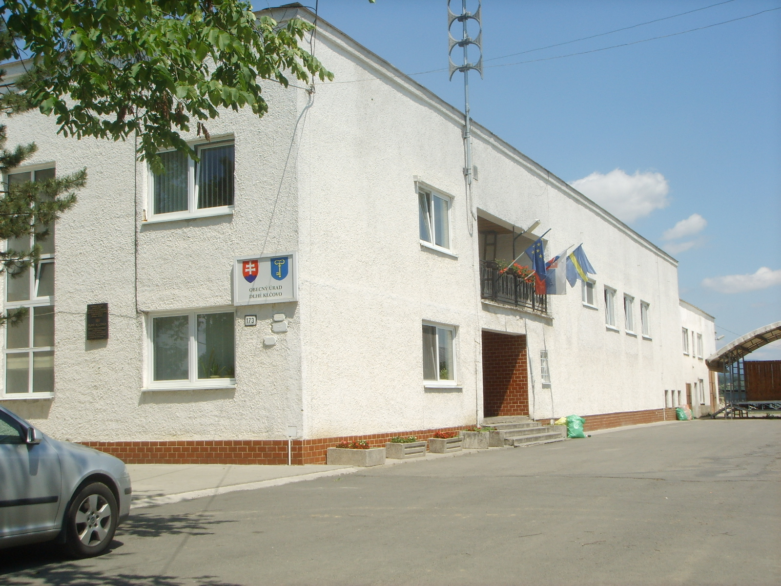 Municipality office in Dlhé Klčovo